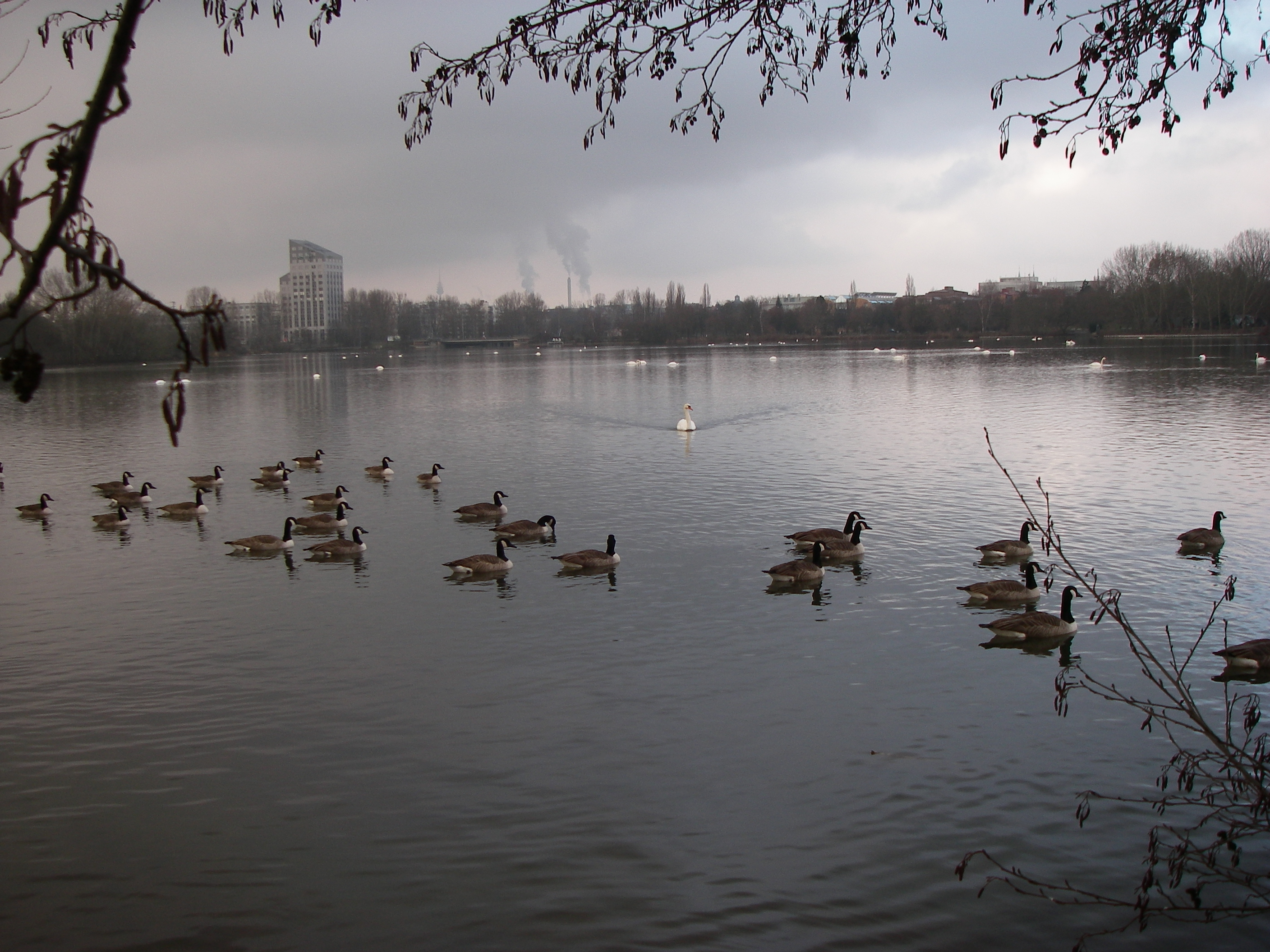 Canada Gooses on Woehrder See in Nuremberg, Germany, in January